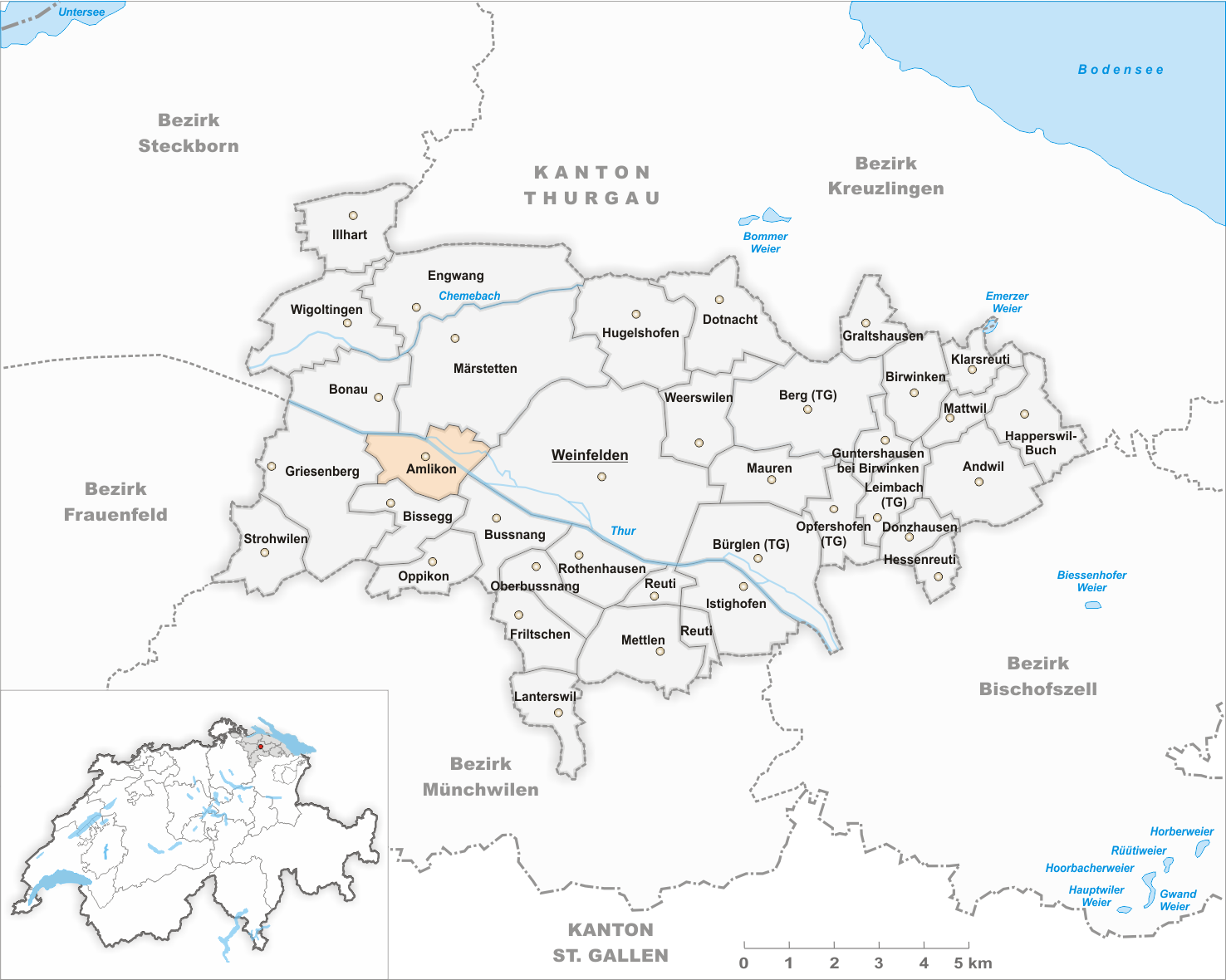 Municipality Amlikon